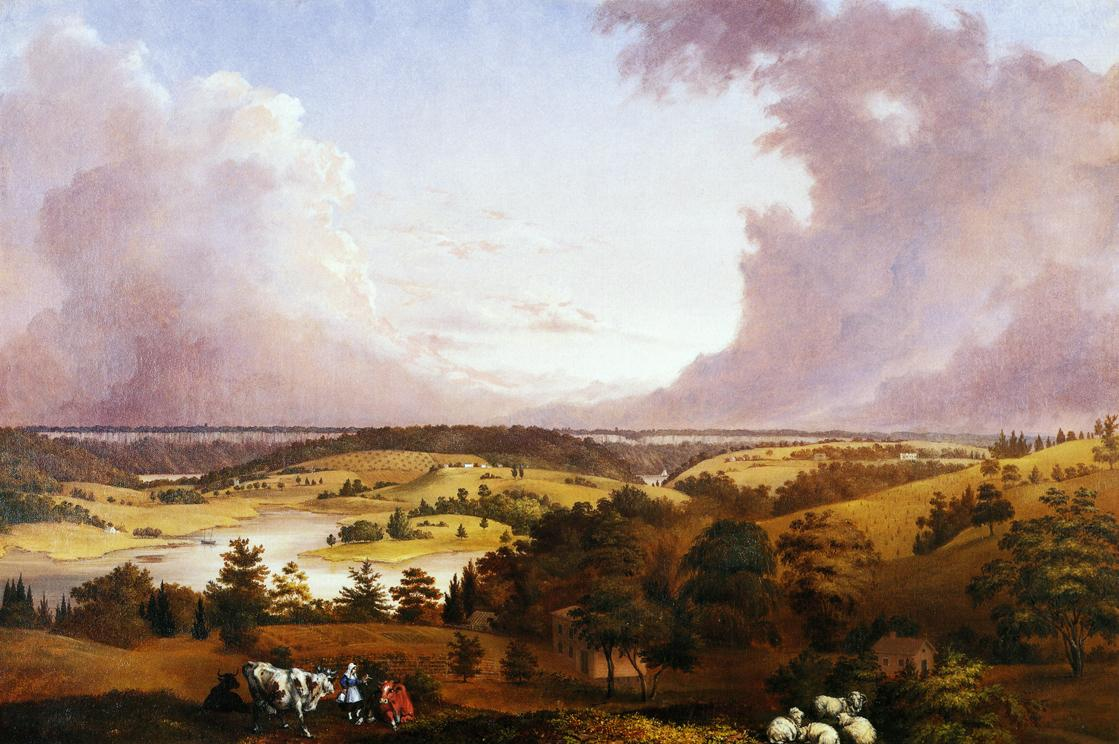 "View of Hastings on Hudson," by the American artist John Ludlow Morton, oil on canvas. 19.5" x 30.25". Private collection.